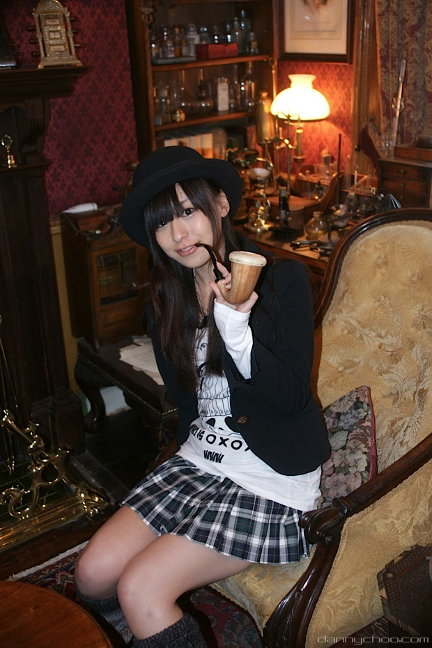 View more at